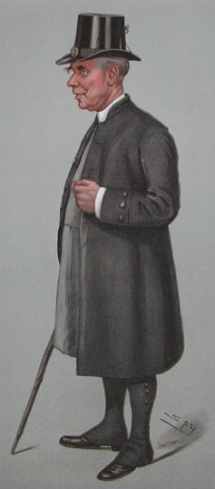 Caricature of Randall Thomas Davidson (1848-1930), Bishop of Winchester at the time. Caption read "Prelate of the garter".